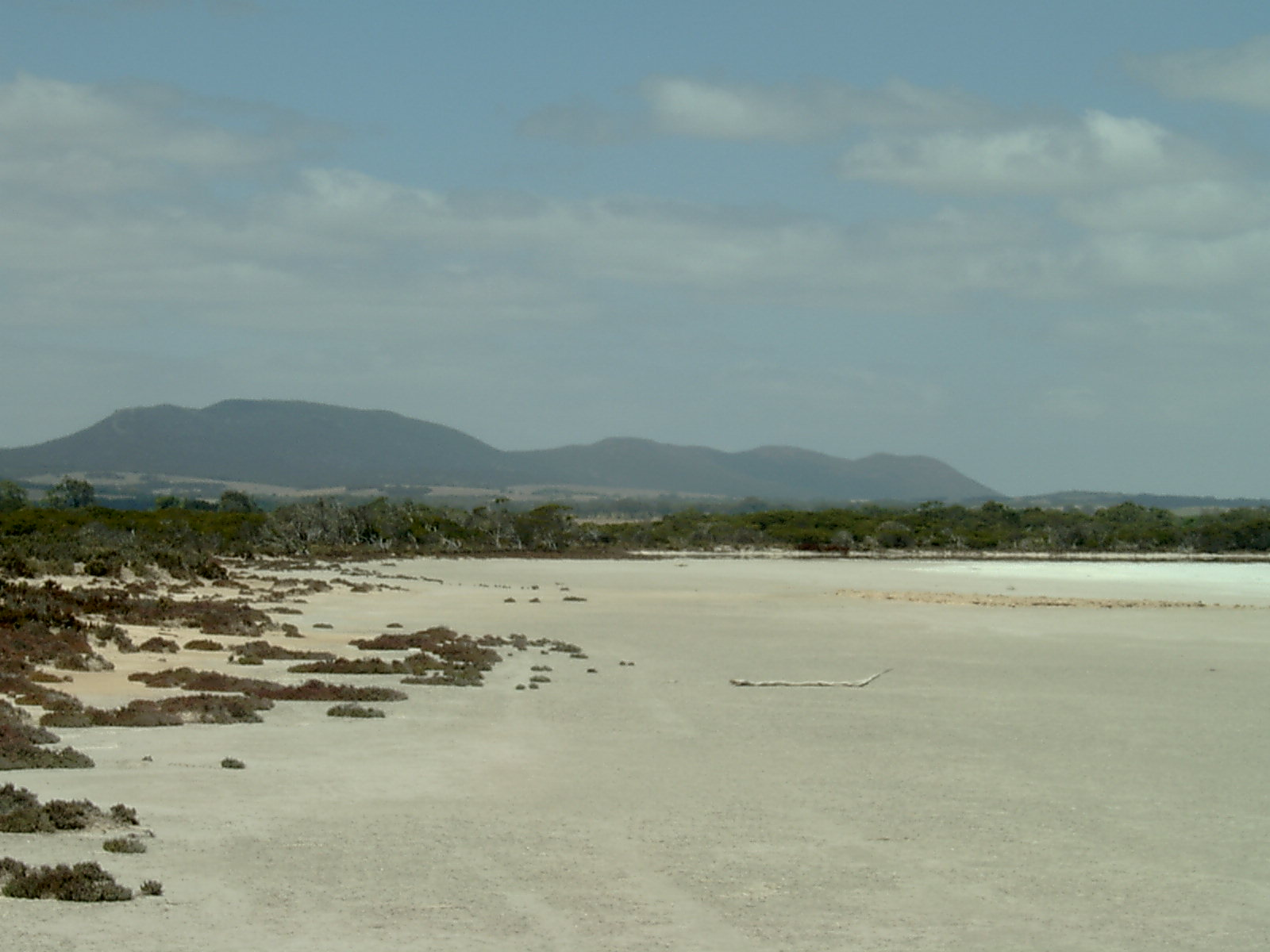 January 2007.